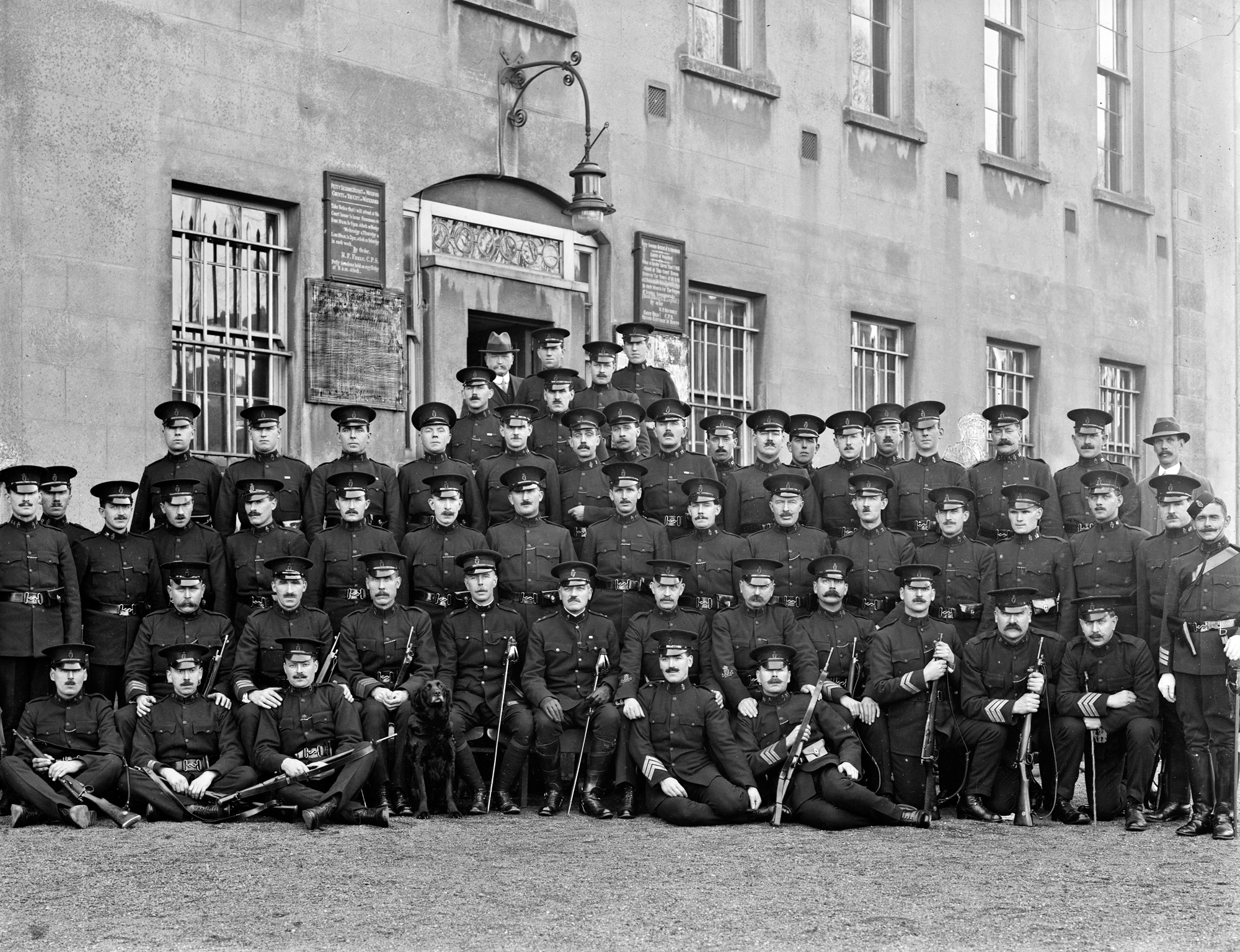 A large group of RIC officers and men from the Poole Collection. In the years that followed this image, many of these men may have found their world come tumbling down around them. Some perhaps lost their lives in the struggle that was to come, while others will have lost or left their jobs, their homes and their colleagues. Today's contributors provide some extra insight and context on those pictured, in particular on the Inspector Hetreed mentioned. [/photos/33577523@N08/ Ofarrl] links us to the census entry showing the inspector living with his family close-by on Waterford's South Parade, and an extract from Fergus Campbell's book. [/photos/20727502@N00/ Guliolopez] provides evidence that the image was taken to mark the retirement of the inspector on 14 November 1917. Photographer: A. H. Poole Collection: Poole Photographic Studio, Waterford Date: Wednesday 14 November 1917 NLI Ref: POOLEWP 2736 You can also view this image, and many thousands of others, on the NLI’s catalogue at